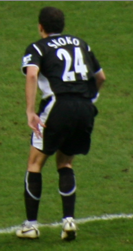 Josip Skoko. Image cropped from original at Flickr.